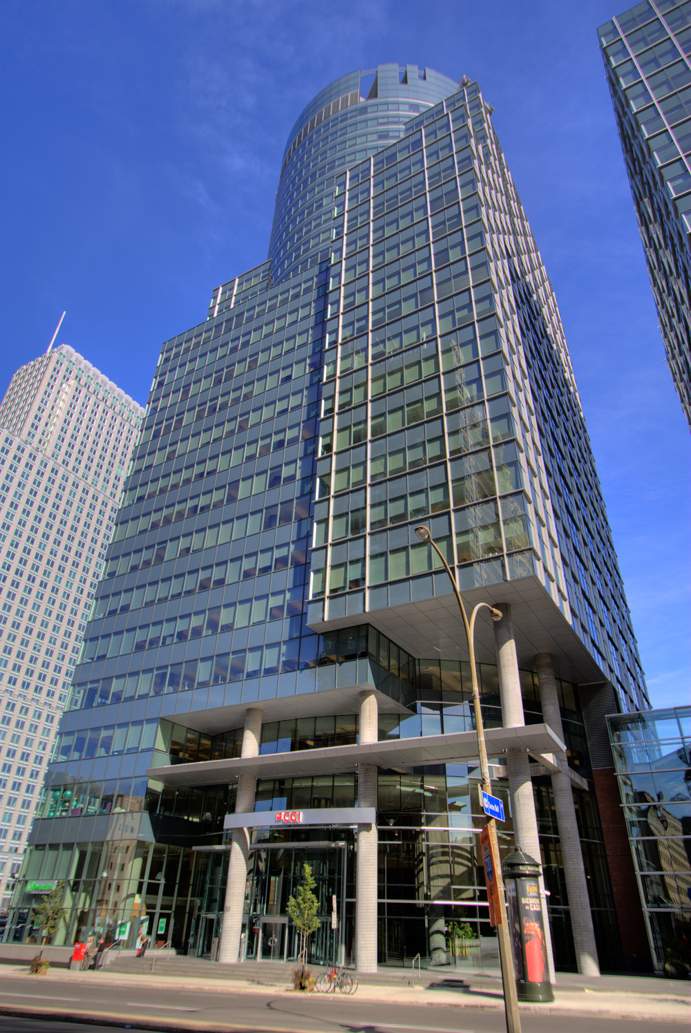 Cité du commerce électronique - Phase I office tower (HDR).